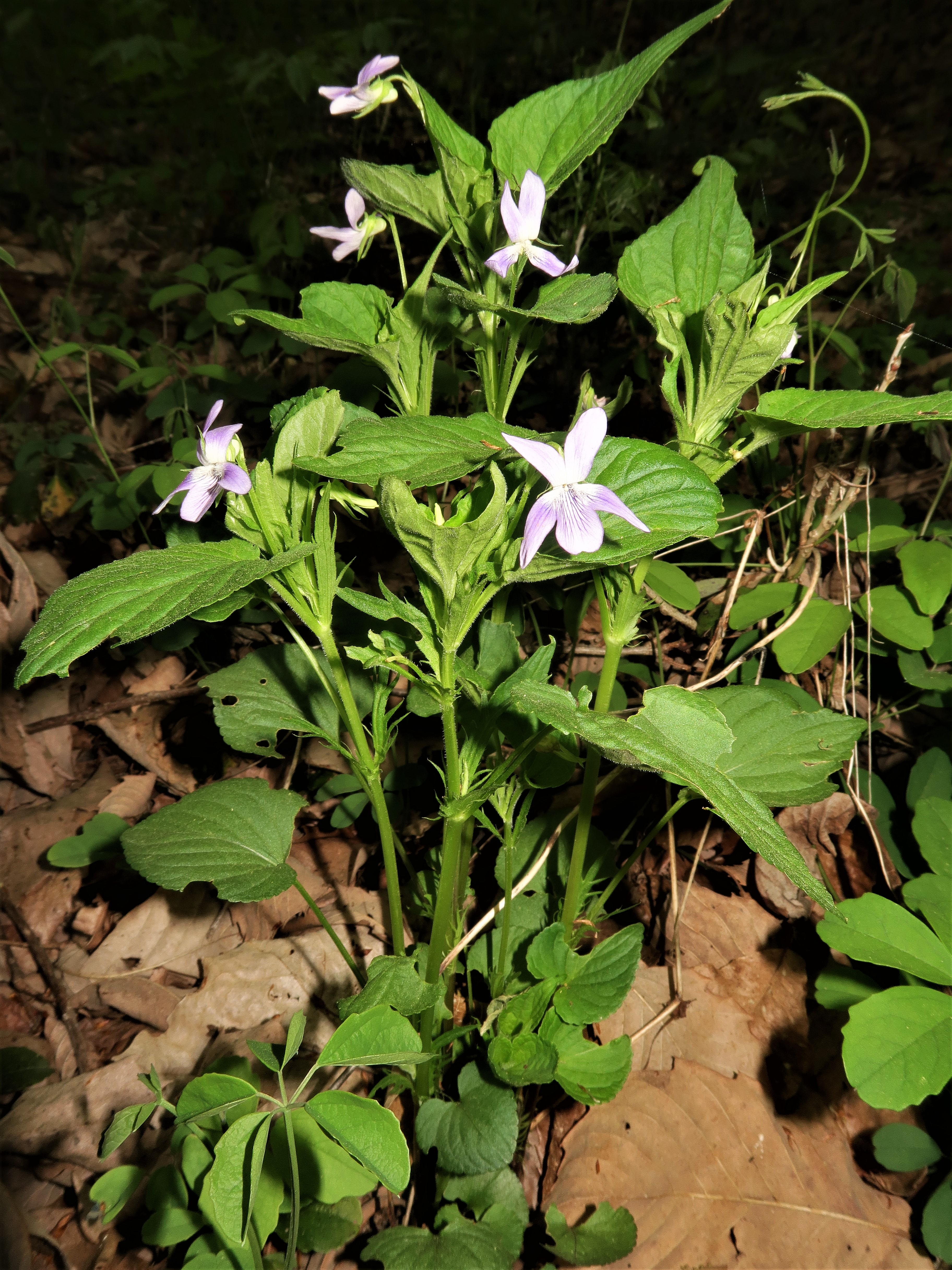 Viola acuminata, Aizu area, Fukushima pref., Japan